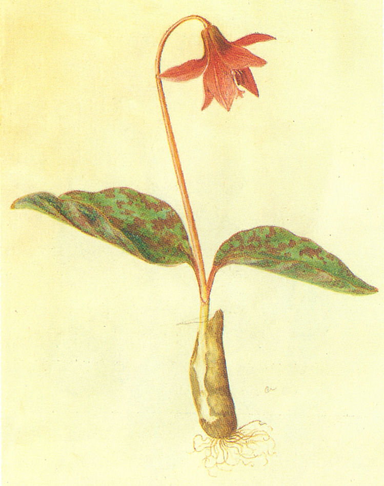 Erythronium dens canis, gouache on vellum, in: Gottorfer Codex